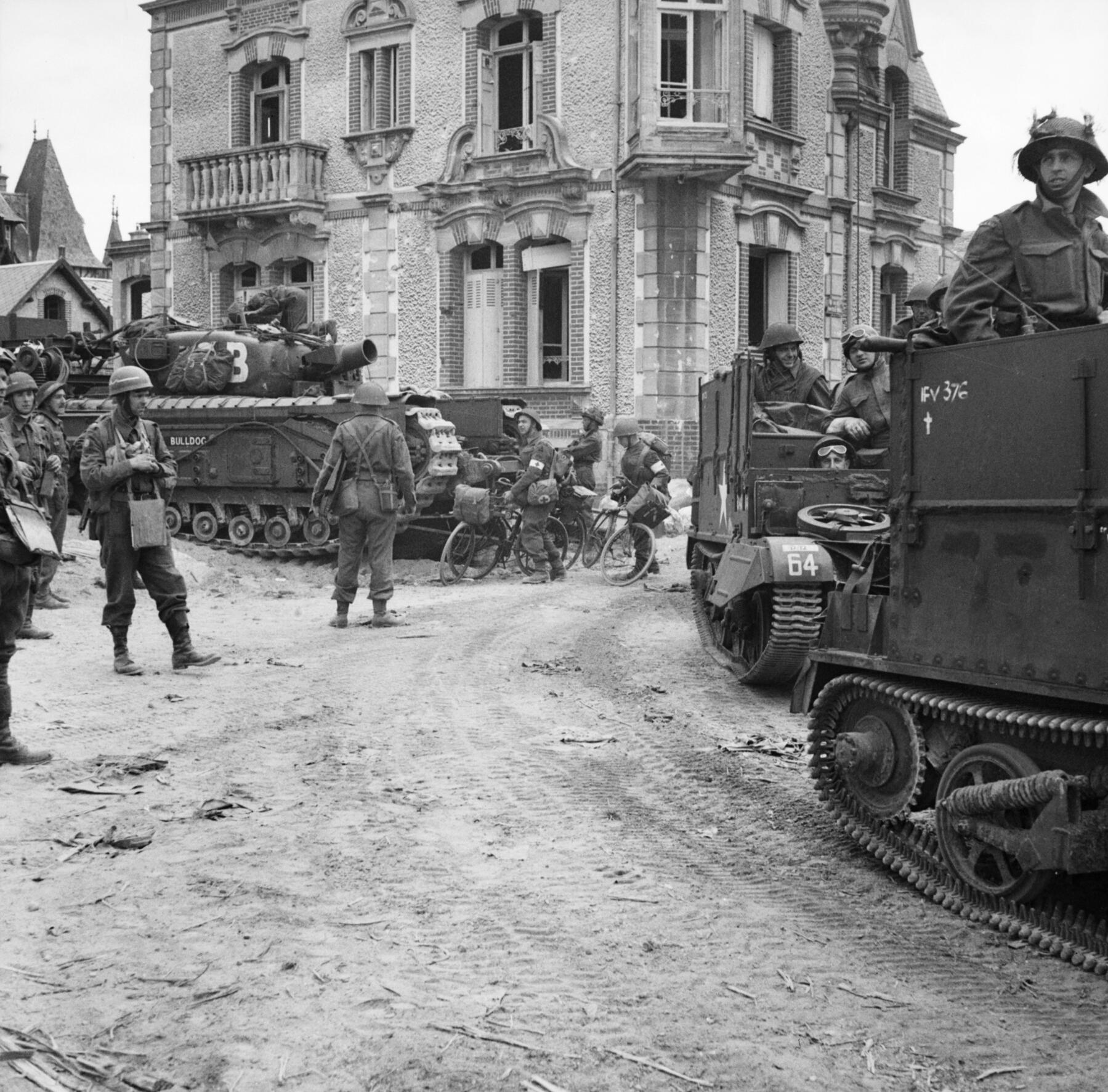 D-day - British Forces during the Invasion of Normandy 6 June 1944 Universal Carriers of 2nd Middlesex Regiment (3rd Division's MG battalion) pass a Churchill AVRE of 77th Assault Squadron, 5th Assault Regiment, in La Brèche d'Hermanville, 6 June 1944.